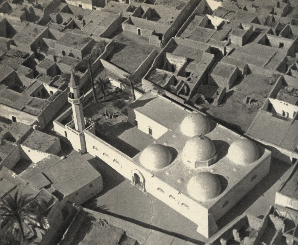 The old town of Hun, 1930s.